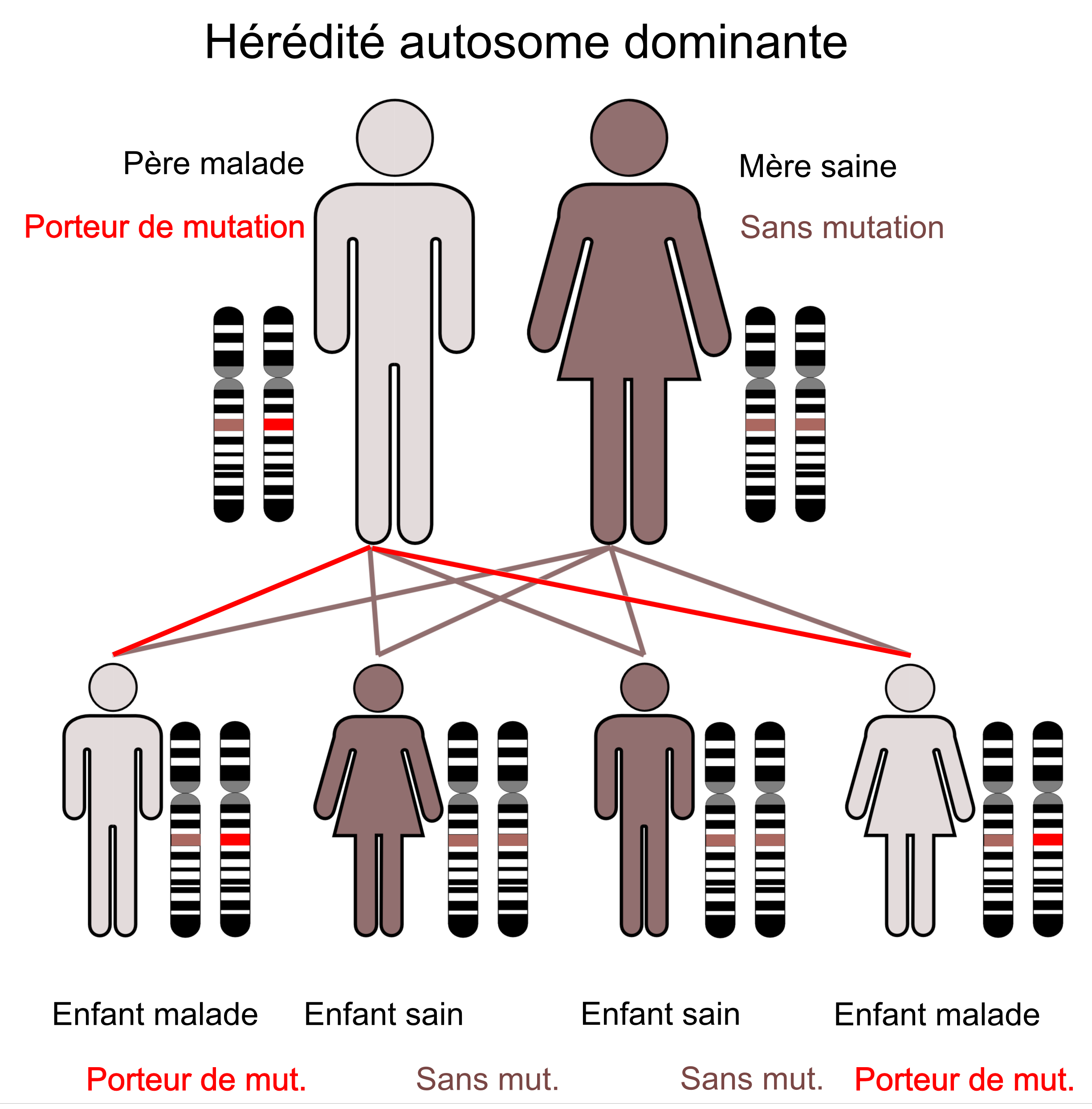 Autosomal dominant inheritance